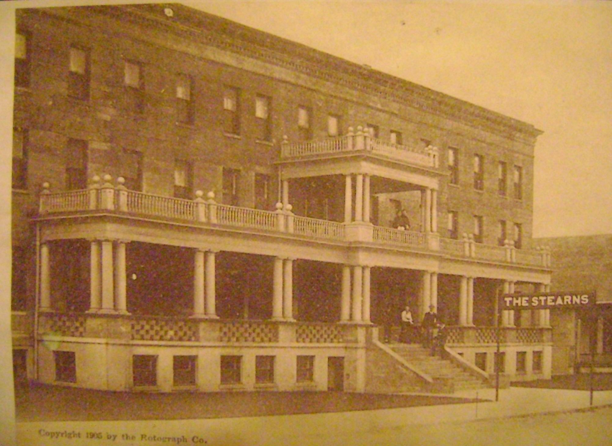 1905 advertising brochure at Stearns Hotel, Ludington, Michigan